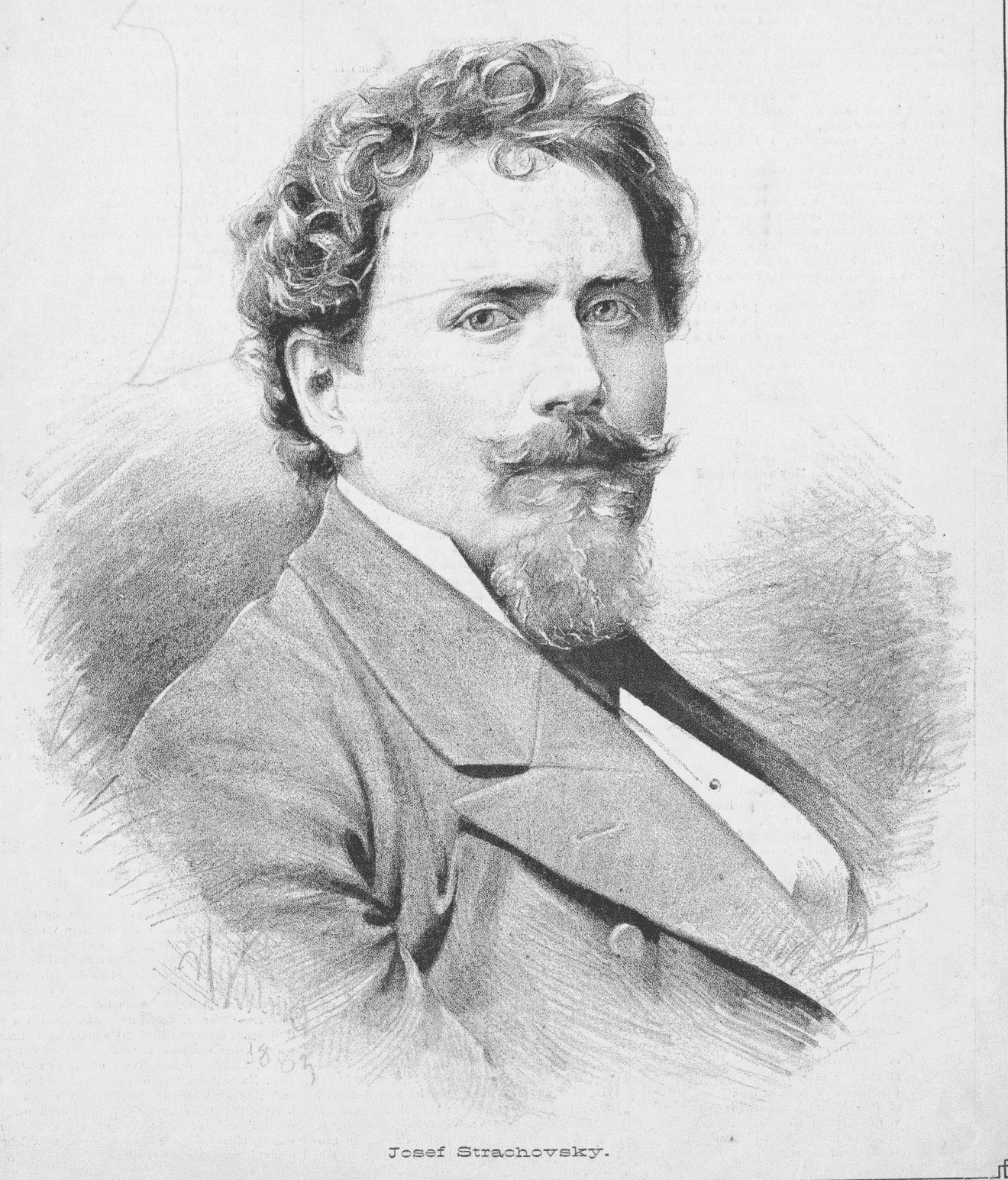 Portrait of Josef Strachovský (1850-1913), Czech sculptor.